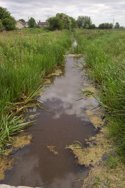 Magor Marsh SSSI & Nature Reserve View along a drainage ditch looking south towards the River Severn.